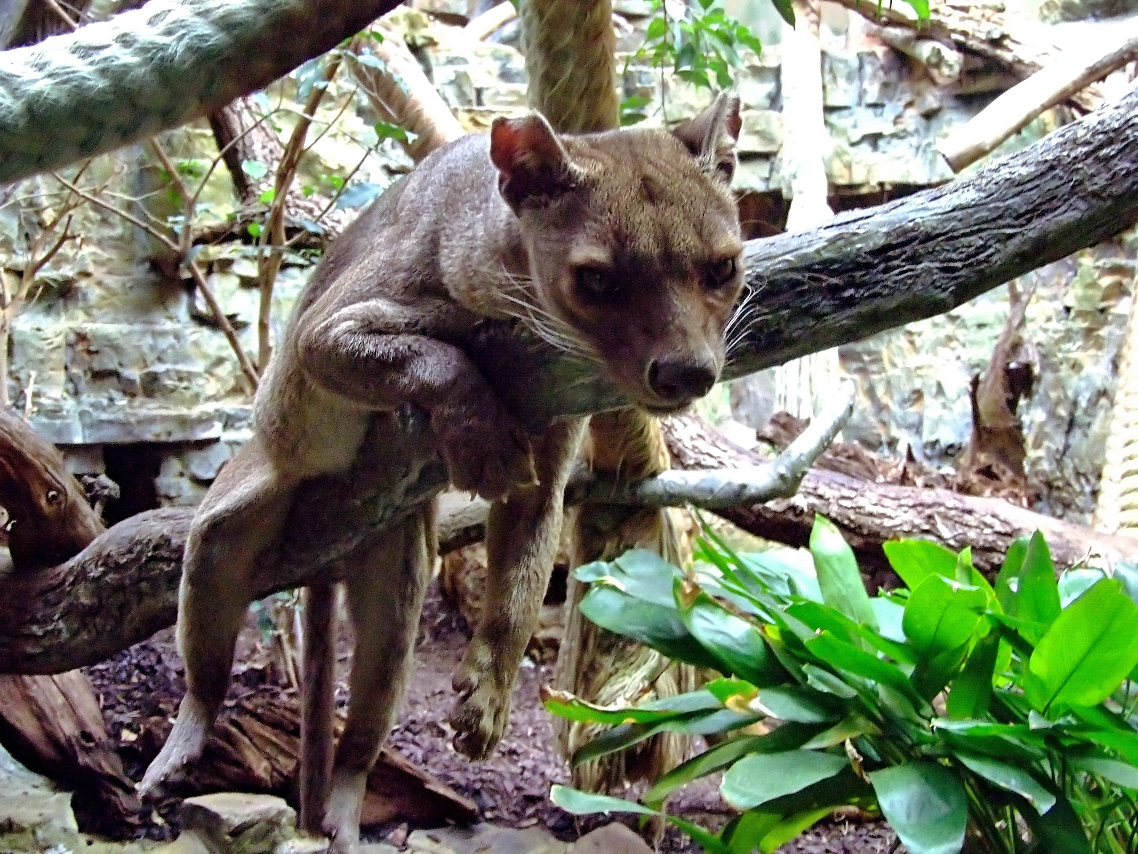 Fossa (Cryptoprocta ferox) im Zoo Frankfurt